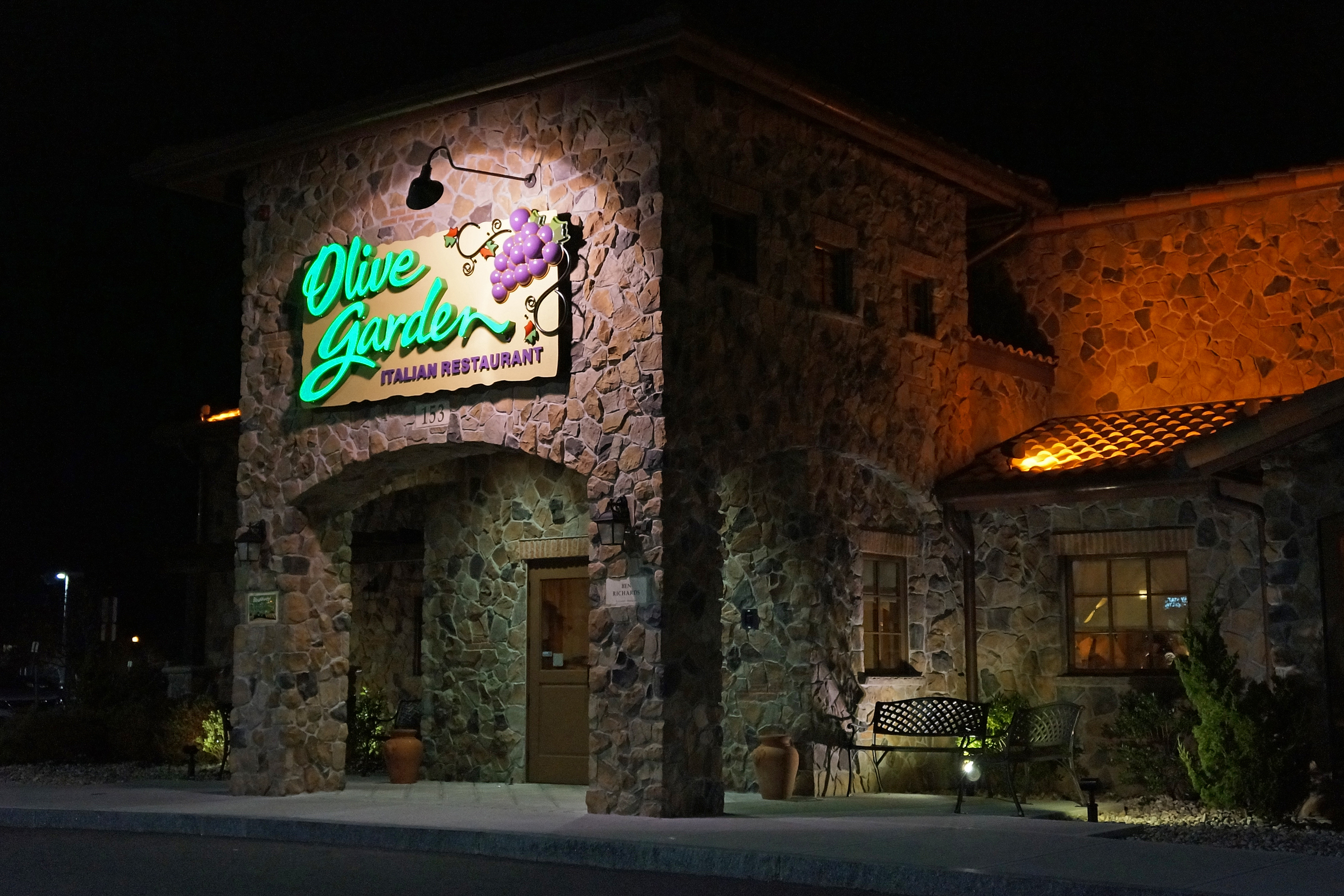 Olive Garden restaurant, Andover St. Danvers, Massachusetts